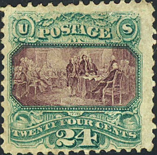 US Stamp: Signing_of_Declaration_1869_Issue-24c.jpg